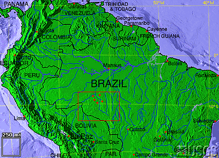 Map of the five ramarama languages testimonied, based in Nilson Gabas (2000): "Genetic Relationship within Ramaráma Family of the Tupí Stock (Brazil)", en Indigenous Languages of Latin America (ILLA), Vol. 1, Leinden University, ISBN 90-5789-044-5.